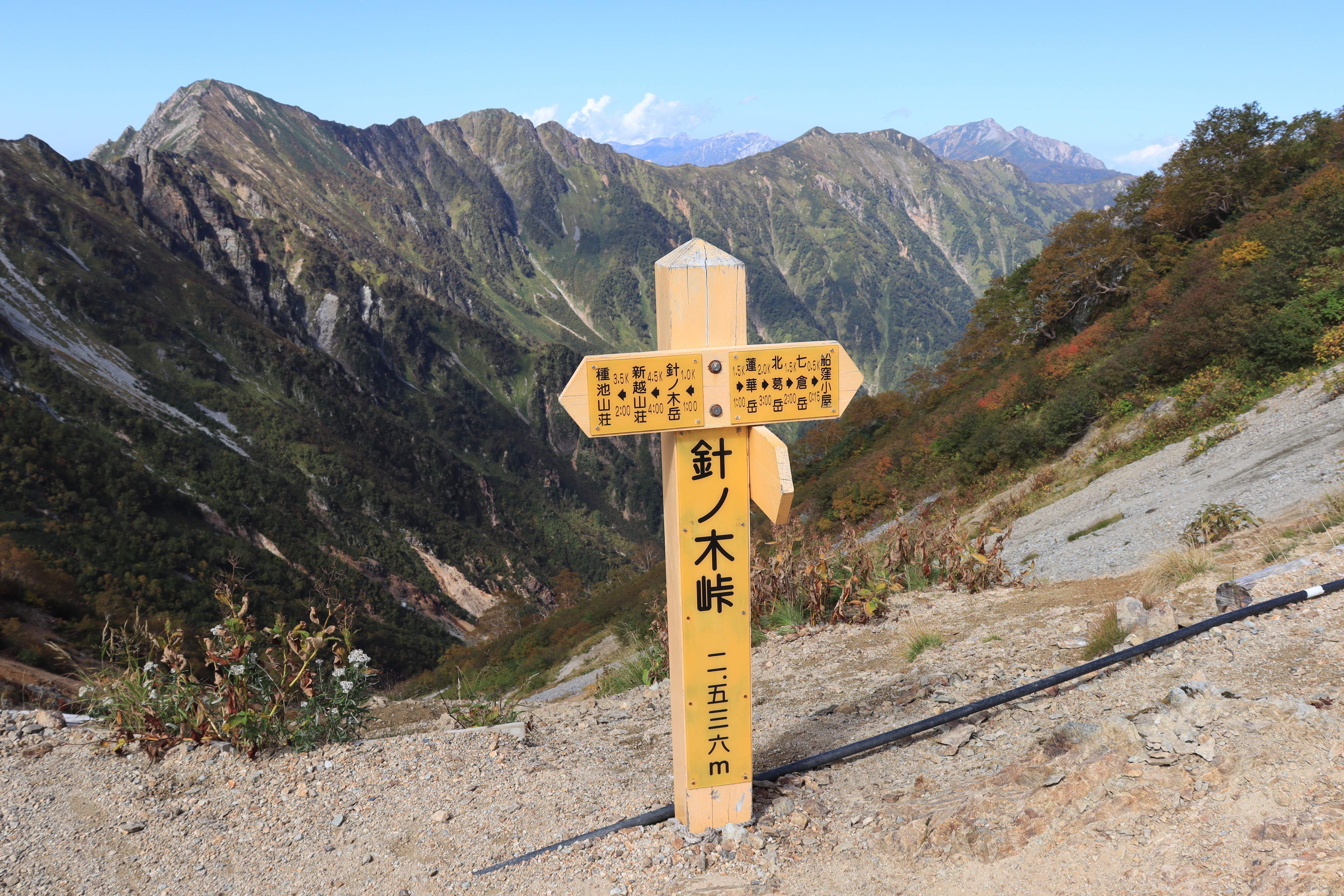 Harinoki Pass in Hida Mountains, Tateyama Town, Toyama Prefecture and Omachi, Nagano Prefecture, Japan.